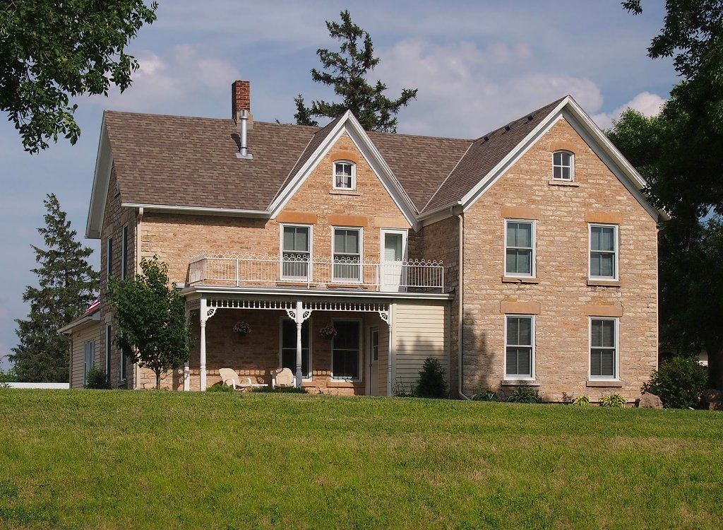 Bonde Farmhouse, Wheeling Township (outside Nerstrand), Minnesota, USA. Viewed from the west-northwest.